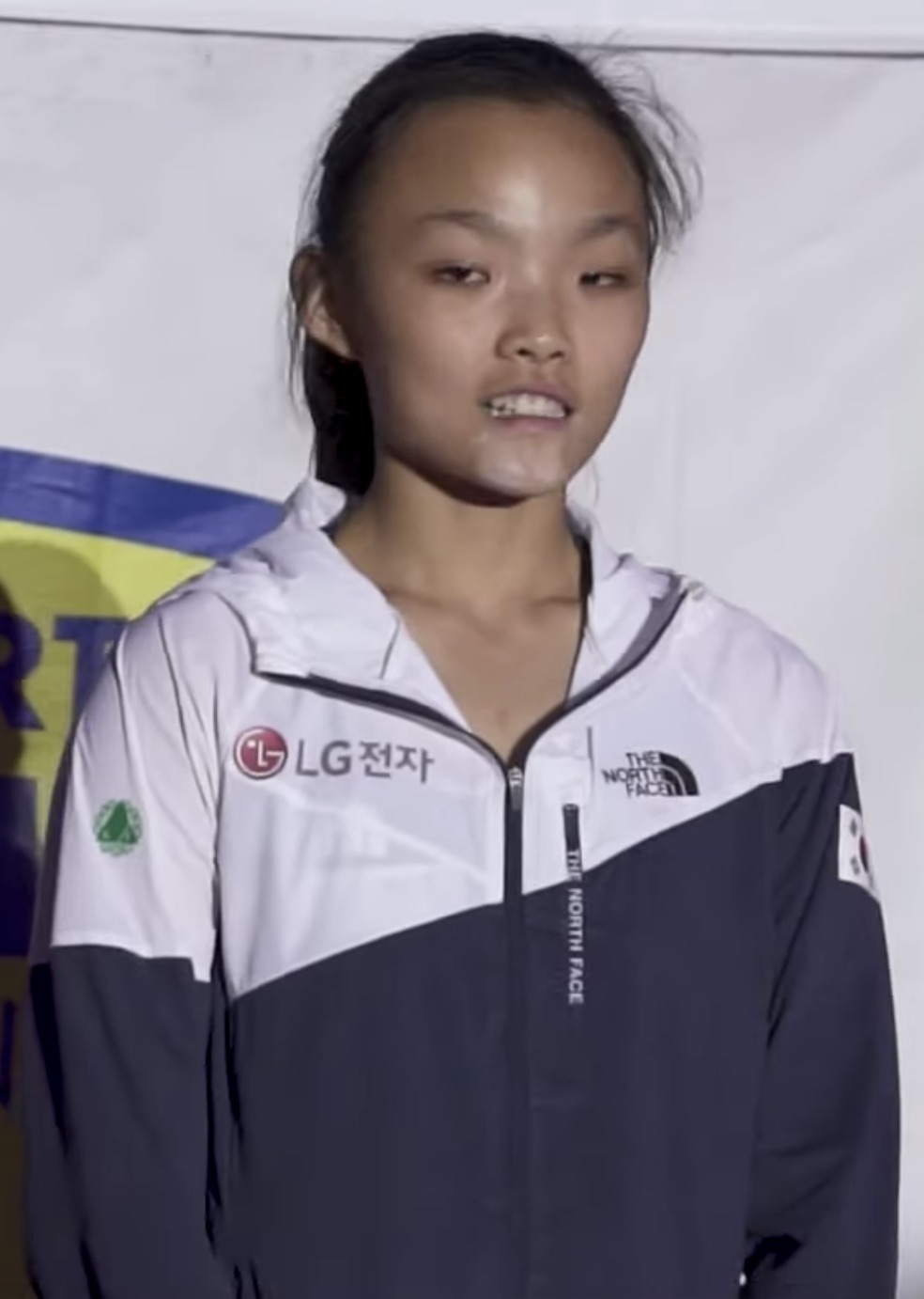 Chaehyun Seo on the podium at the 2019 Climbing World Cup Chamonix